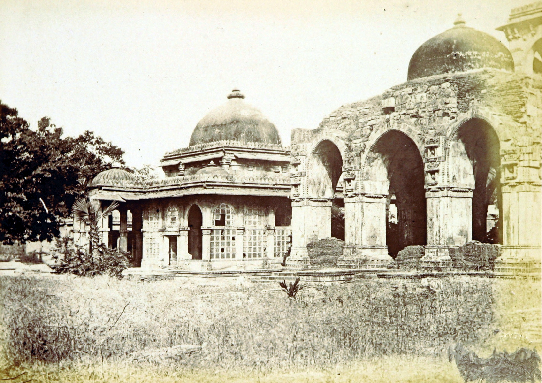 Image taken from: Title: "Architecture at Ahmedabad, the Capital of Goozerat, photographed by Colonel Biggs, ... With an historical and descriptive sketch, by T. C. H., ... and architectural notes by J. Fergusson, etc" Author: HOPE, Theodore Cracraft - Sir, K.C.S.I Contributor: BIGGS, Thomas. Contributor: FERGUSSON, James - Architect Shelfmark: "British Library HMNTS 10057.f.17.", "British Library OC V 6665" Page: 247 Place of Publishing: London Date of Publishing: 1866 Issuance: monographic Identifier: 001730119 Note: The colours, contrast and appearance of these illustrations are unlikely to be true to life. They are derived from scanned images that have been enhanced for machine interpretation and have been altered from their originals. If you wish to purchase a high quality copy of the page that this image is drawn from, please order it here. Please note that you will need to enter details from the above list - such as the shelfmark, the page, the book's volume and so on - when filling out your order. Following this or the link above will take you to the British Library's integrated catalogue. You will be able to download a PDF of the book this image is taken from, as well as view the pages up close with the 'itemViewer'. Click on the 'related items' to search for the electronic version of this work. Click here to see all the illustrations in this book and click here to browse other illustrations published in books in the same year. Please click on the tags shown on the right-hand side for other ways to browse the illustrations.